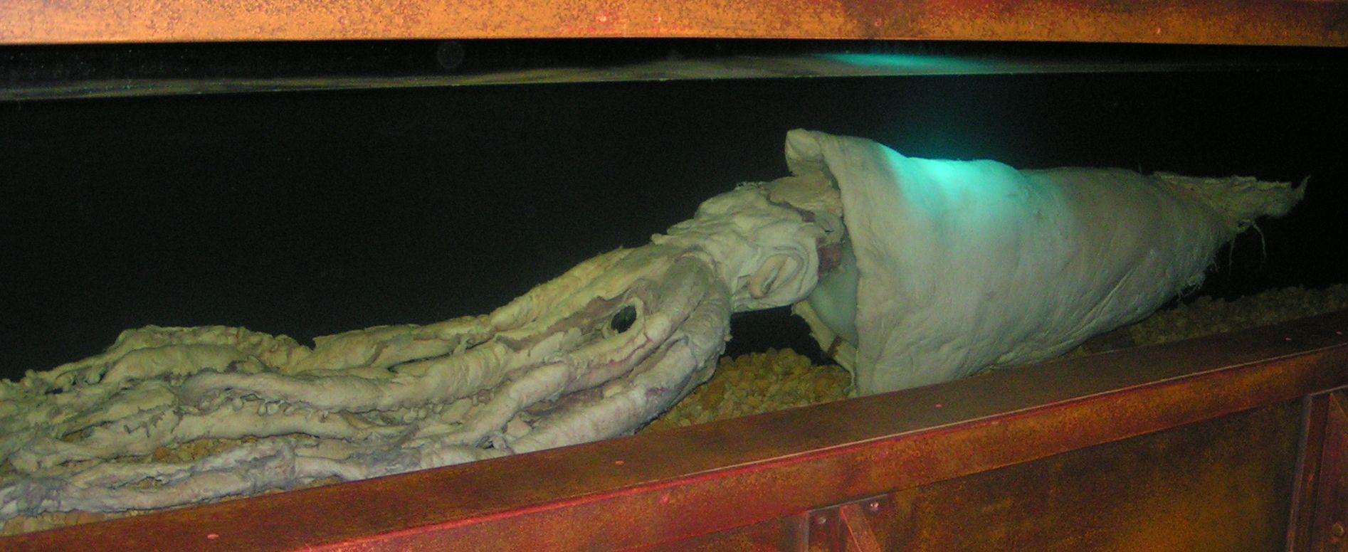 Giant squid (Architeuthis dux); the specimen is about 3.15m long including tentacles, plus two 7 m long tentacles for catching prey. Caught on January 3 2002 160km away from the Hebrides. Photo in the National Marine Aquarium, Plymouth, GB